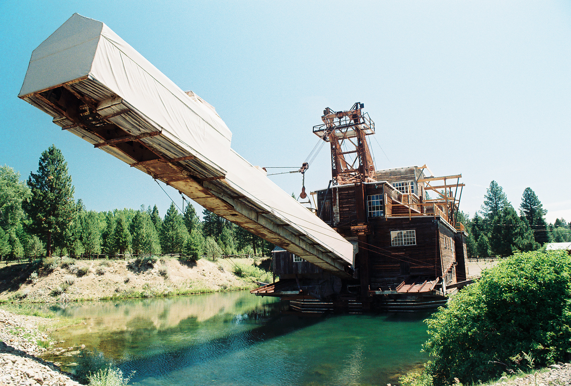 Gold Dredge in Sumpter, OR and they thought that environmental damage would fix itself. The valley that Sumpter rules over is a barren, craggy maze of tailings. THis thing went along digging up the creek bed, zig-zagging along its way and dumping rock behind it. Out of this very ramp in fact. It's been laid up in this park for a few decades now and the only life is a few scraggly trees amongst the stone. Ah, Gold fever, catch it.